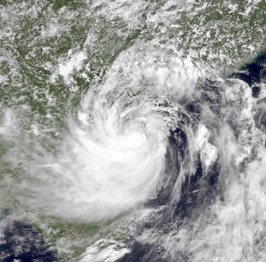 Typhoon Dot on June 10, 1989 with winds of 90 mph and a pressure of 965 mbar.